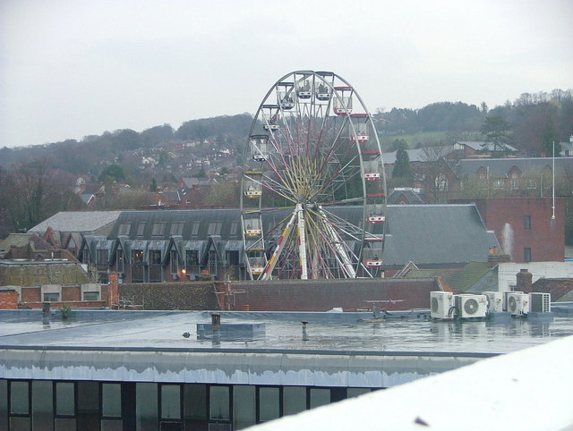 Big Wheel over the roof tops for the opening of Eden A big wheel was erected in Frogmoor giving free rides to celebrate the opening of the Eden Shopping Centre